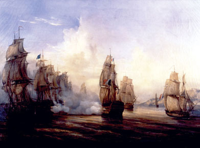 Mavoeuver by French ship Wagram